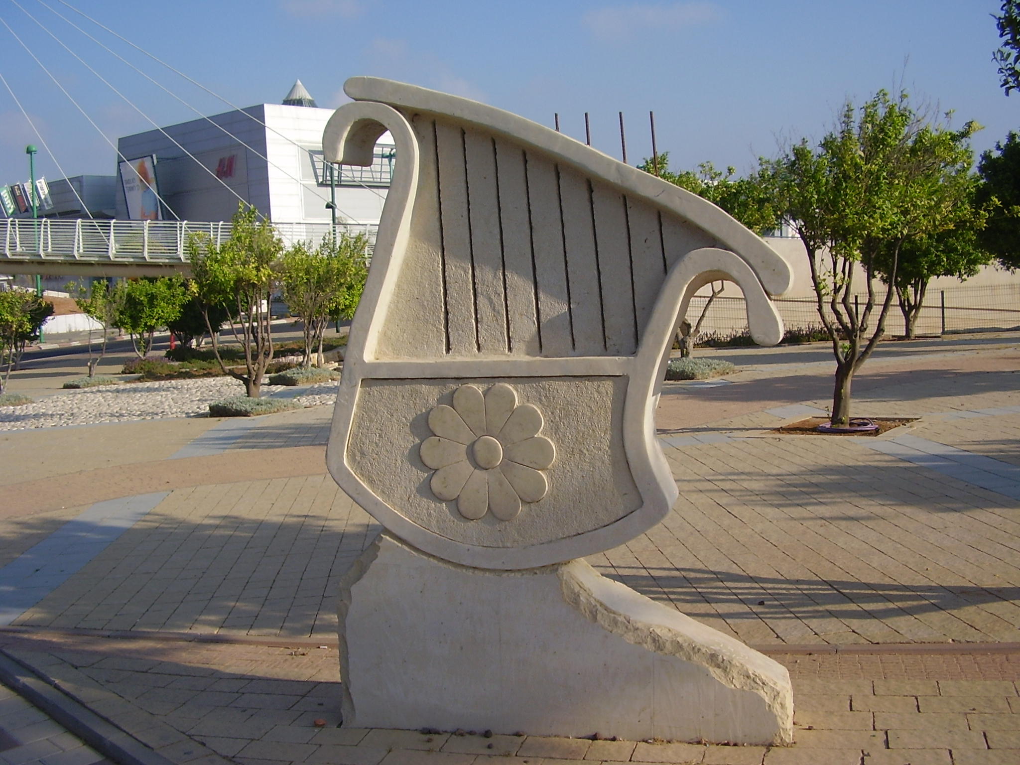 Harp of David (Lyre) in Petah Tikva, Israel